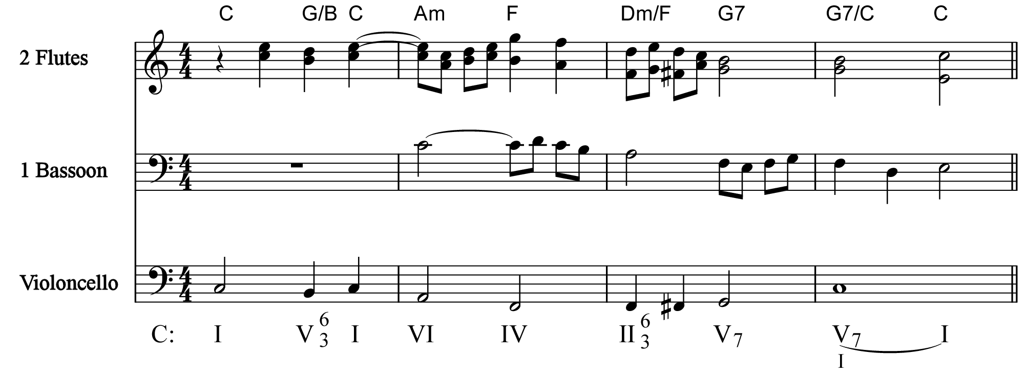 Harmonization in part writing with sectional flutes.